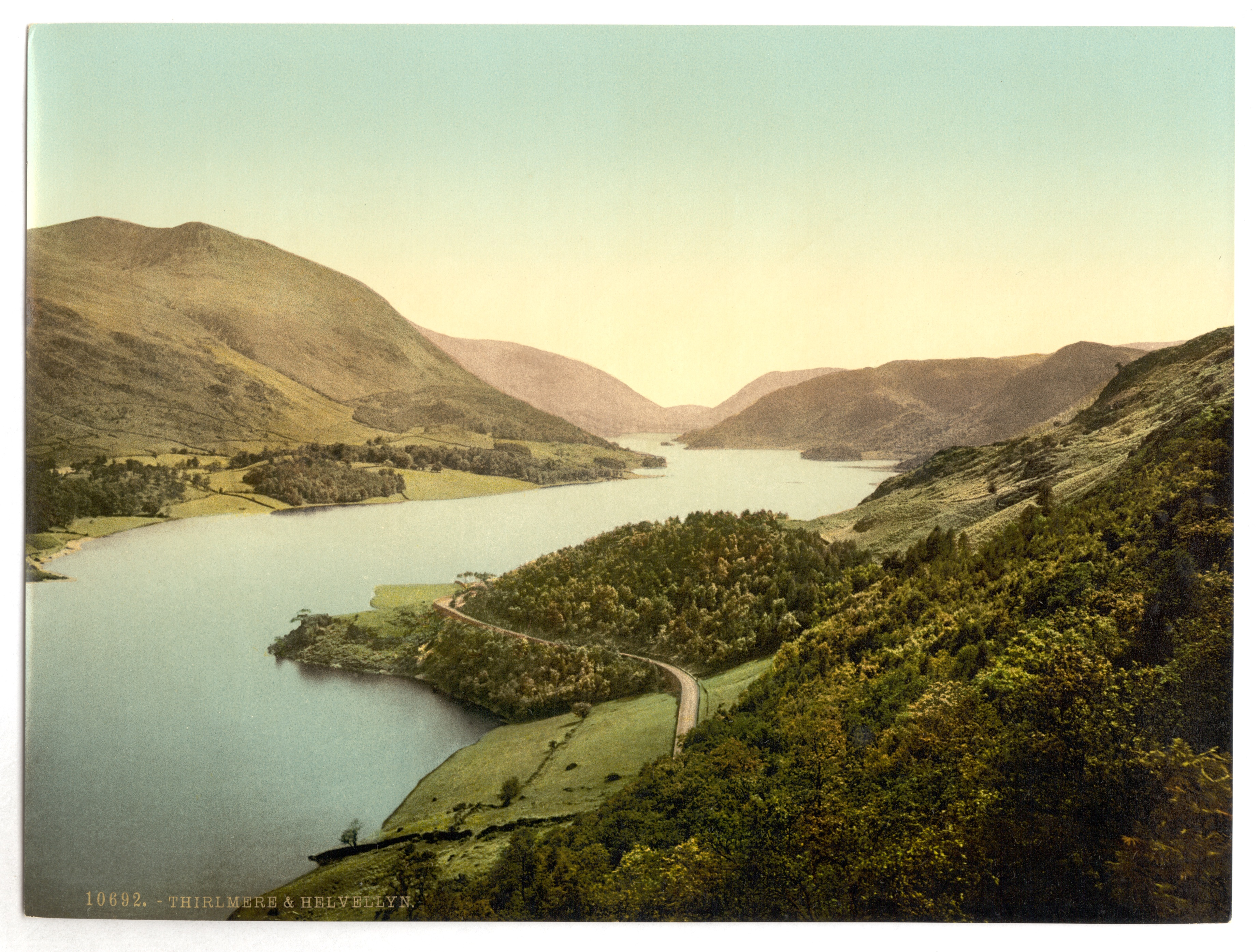 Forms part of: Views of the British Isles, in the Photochrom print collection.; Print no. "10692".; Title from the Detroit Publishing Co., Catalogue J-foreign section, Detroit, Mich. : Detroit Publishing Company, 1905.; More information about the Photochrom Print Collection is available at